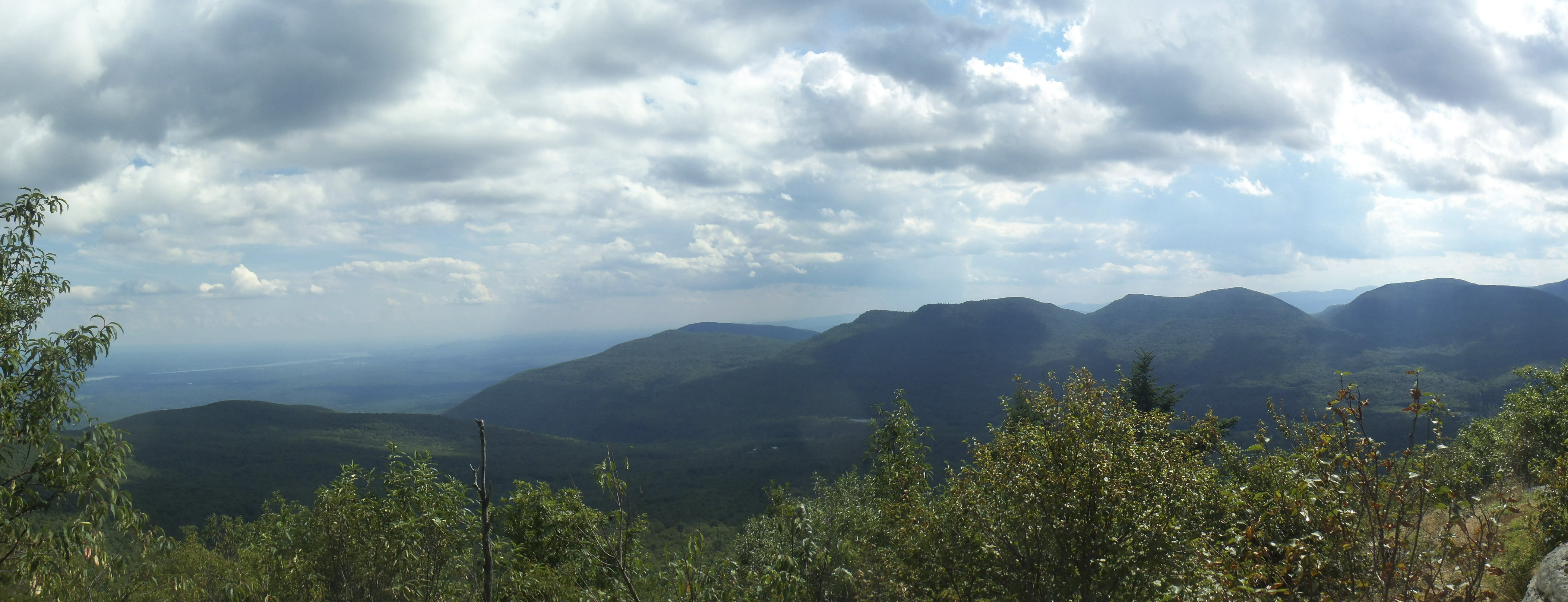 View south from Hurricane Ledge on Kaaterskill High Peak in the Catskill Mountains of the U.S. state of New York. Visible at left is the Hudson River, with the peaks of the Devil's Path range in the center and right.